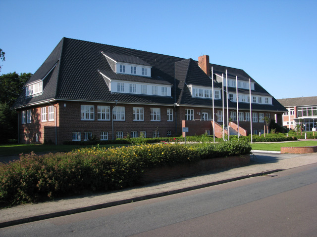 Public Administration Building of the 'Amt Mittleres Nordfriesland' in Bredstedt, Northern Frisia, Germany